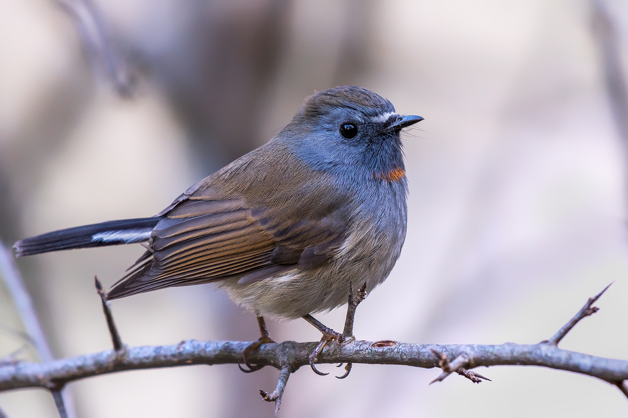 Rufous-gorgeted flycatcher, photographed in Sattal, Uttarakhand, India; Photographed by Prasanna Kumar Mamidala